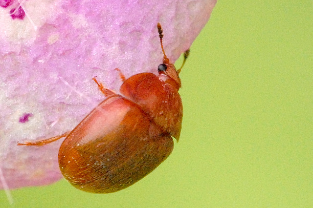 Cychramus luteus from Commanster, Belgian High Ardennes .